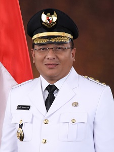 Pradi Supriatna as Vice Mayor of Depok, Indonesia